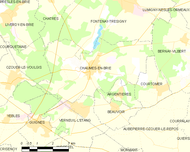 Map of French municipality Chaumes-en-Brie